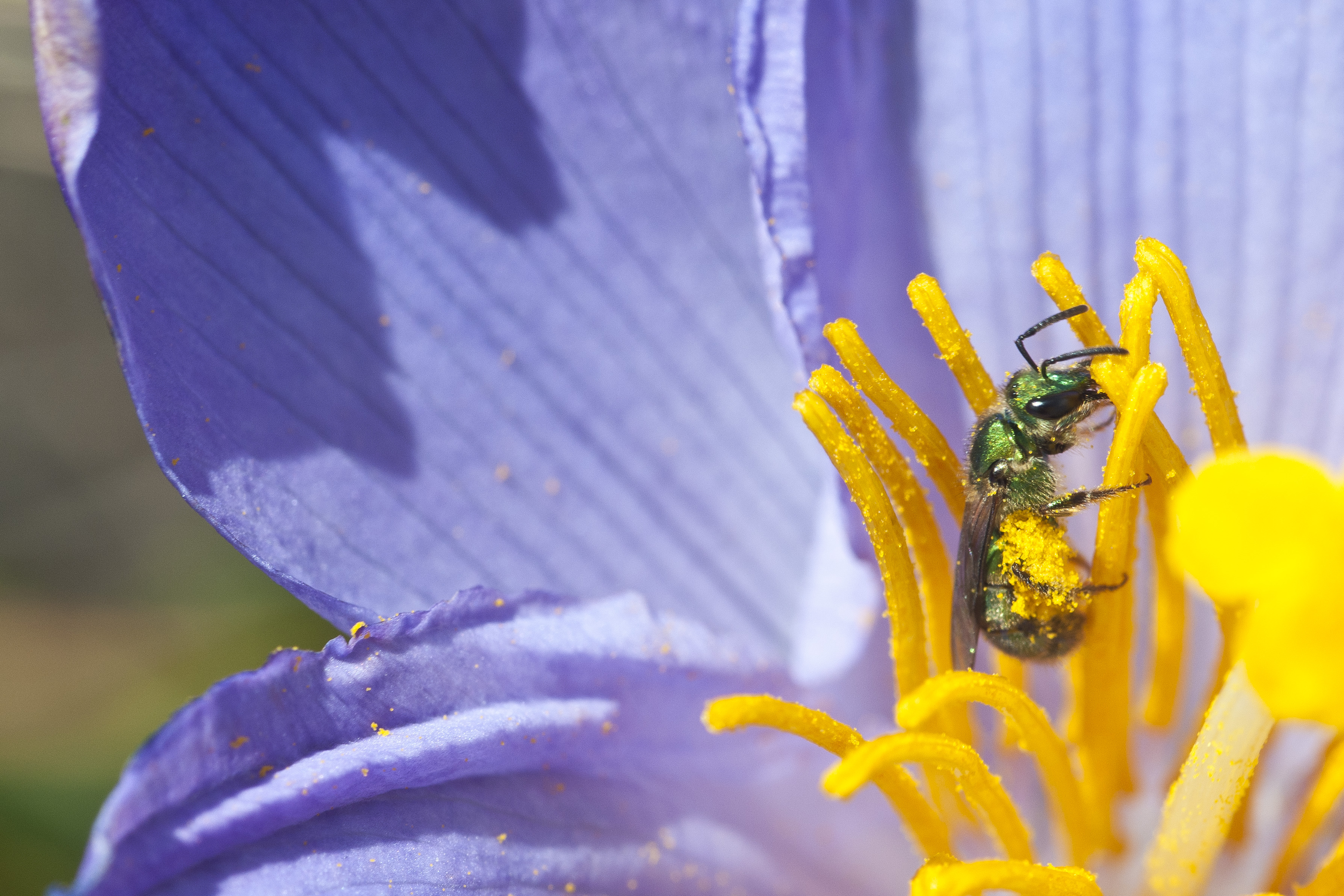 Halictid bee collecting pollen from Vellozia flower, Serra do Cipó, Brazil.